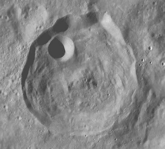 Crater Neander (detail of LRO - WAC global moon mosaic; Mercator projection)